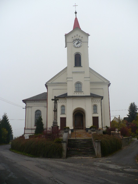 Svébohov local church